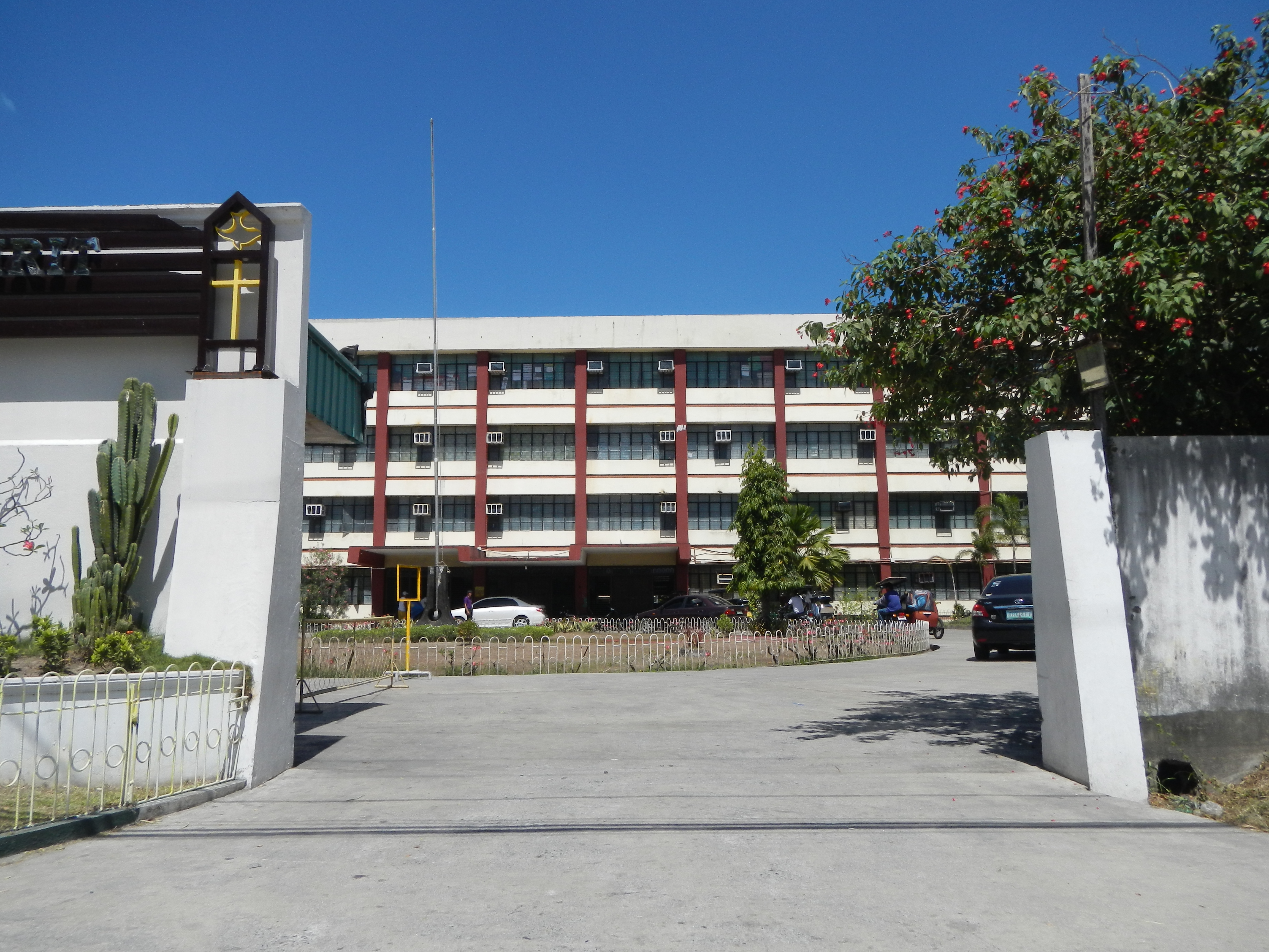 Photos of Tarlac State University – Laboratory School TSU-LS or LS is the high school of the Tarlac State University, Tarlac City in Lucinda Campus, Brgy. Binauganan, San Sebastian, Tarlac City, Philippines Philippines.Web.